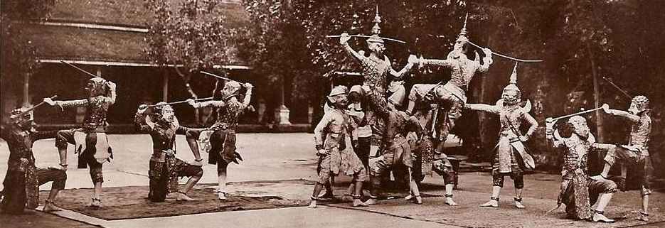 Carte postale ancienne éditée par Fleury. The Royal Ballet of Cambodia performs the Reamker (Ramayana).F. Fleury published postcards in China starting in the year 1900. The postcard's exact date is unknown here, but it is suspected to be taken during either King Norodom's reign in Phnom Penh or the early years of King Sisowath's reign. It is more likelier during King Norodom's reign (d. 1904).